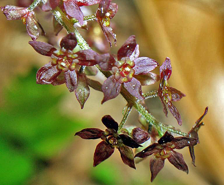 Yellowroot flower closeup